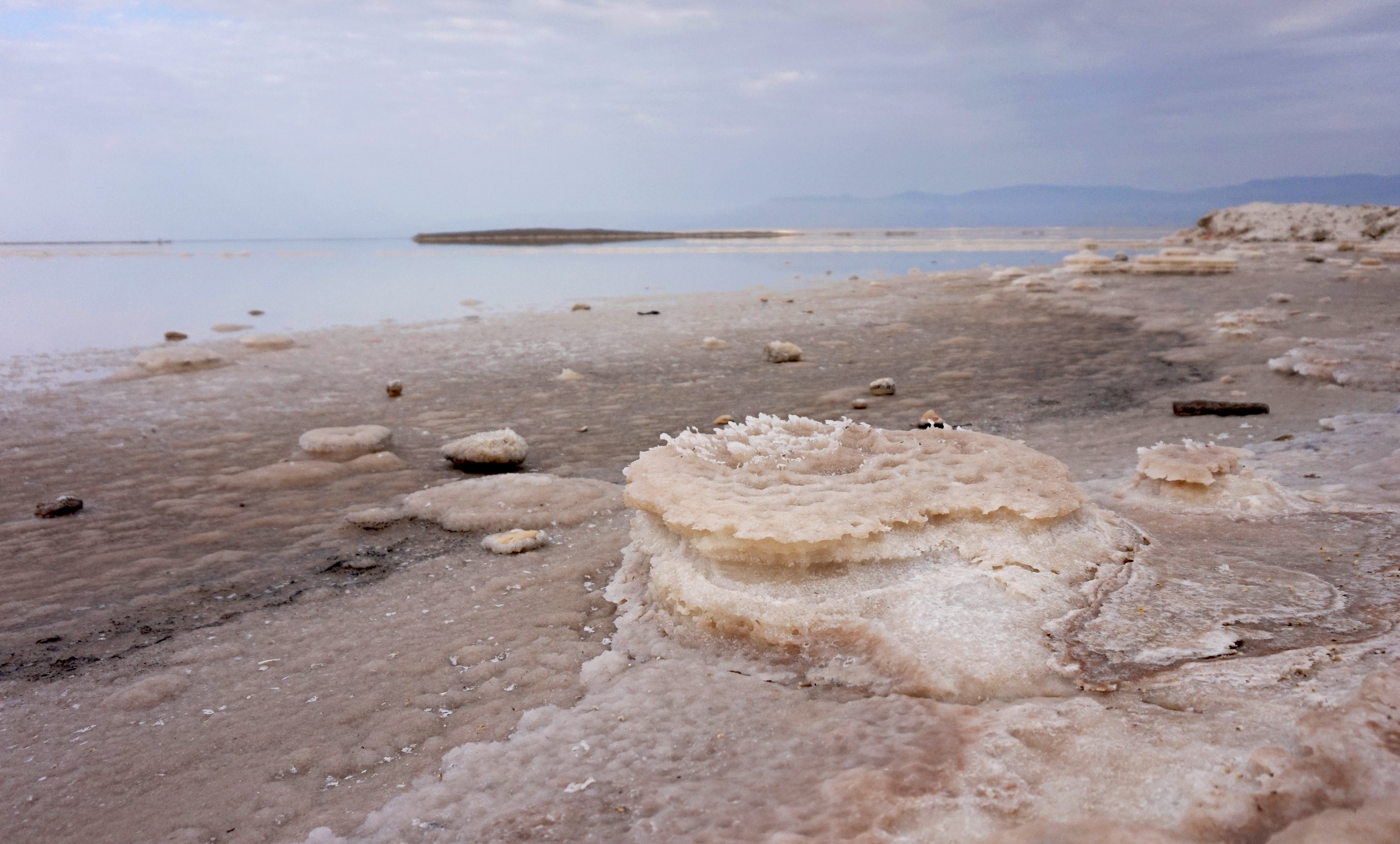 Dead Sea.This photograph was taken with a Sony ILCE-5000